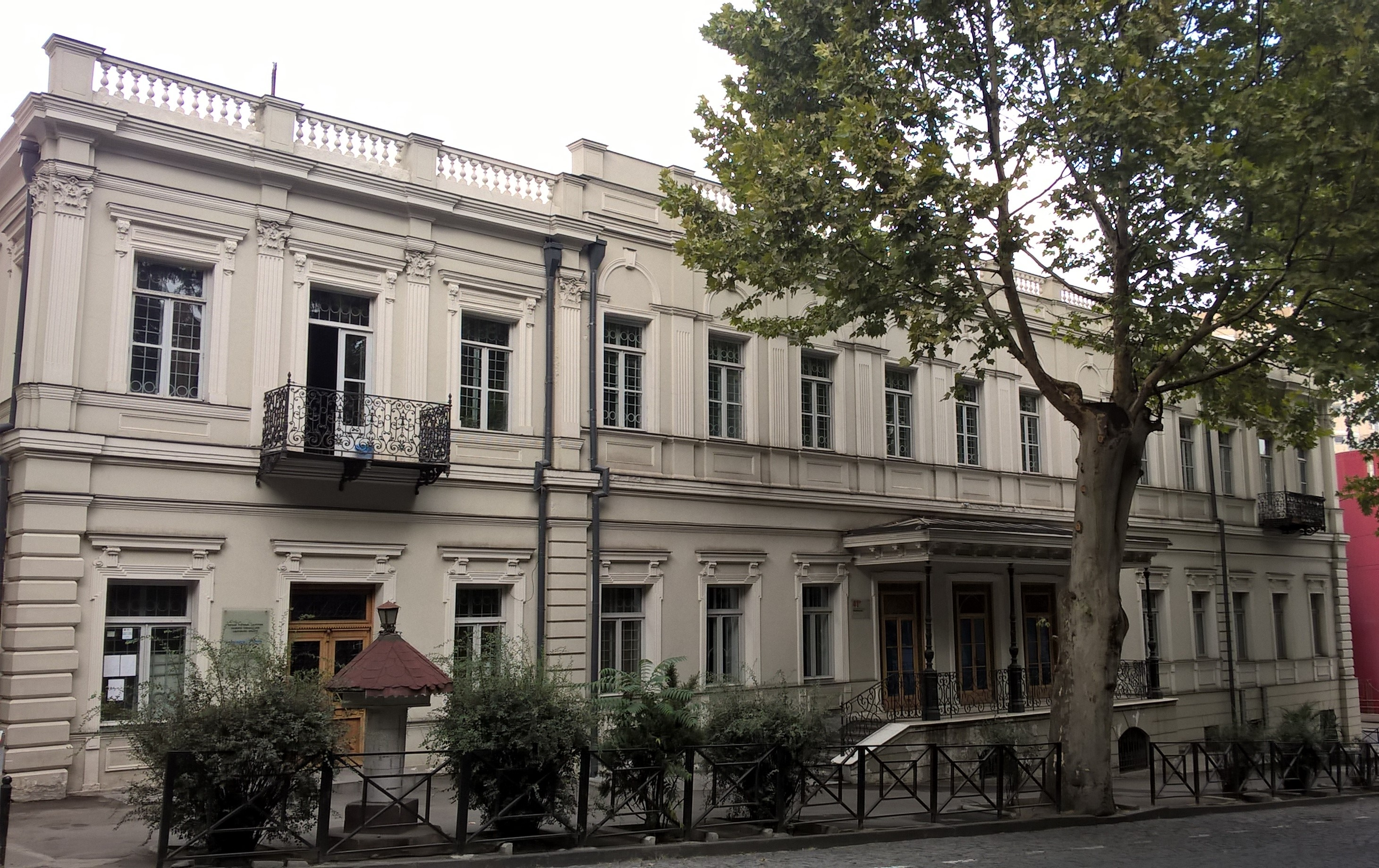 Museum of Literature, Gia Chanturia street 8 / Revaz Tabukashvili street 18, Tbilisi, Georgia